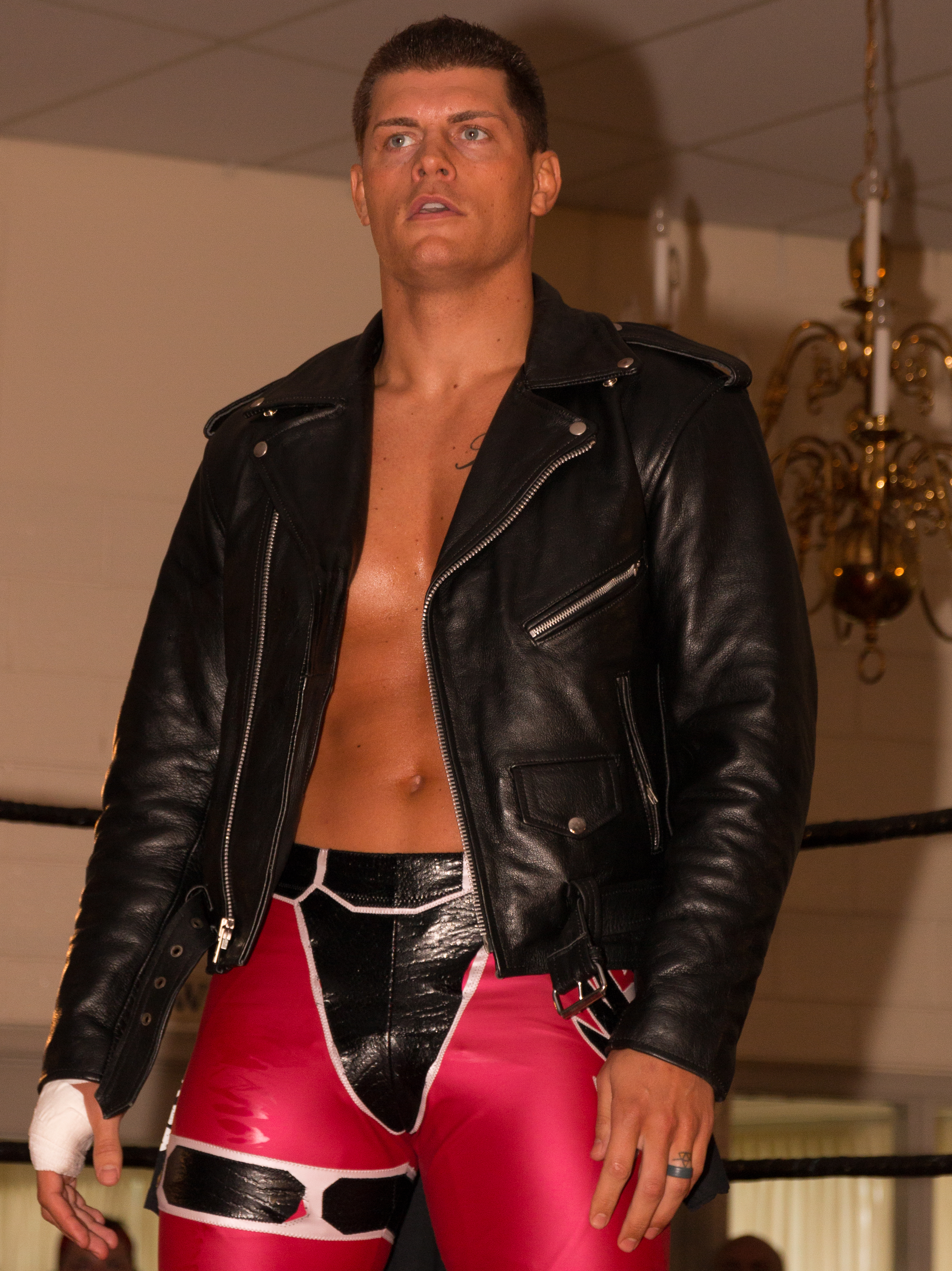 Cody Rhodes at an Alpha-1 independent wrestling show in Hamilton, ON in June 2017